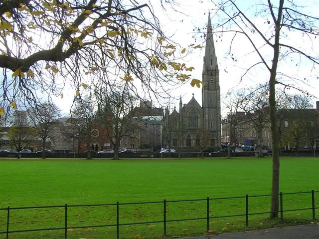 Looking across The Mall, Armagh In the background is First Presbyterian Church which was built in 1878 on the Mall at the corner of Russell Street. The architects were Young and McKenzie of Belfast and they used Armagh limestone with Dungannon sandstone dressings. The Presbyterian Church was first established in Armagh by 1673.